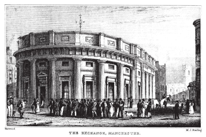 1835-Exchange,_Manchester from Market Street: Capture from Baines 1835, Illustrations from the History of the Cotton Manufacture in Great Britain .Pub H. Fisher, R. Fisher, and P. Jackson